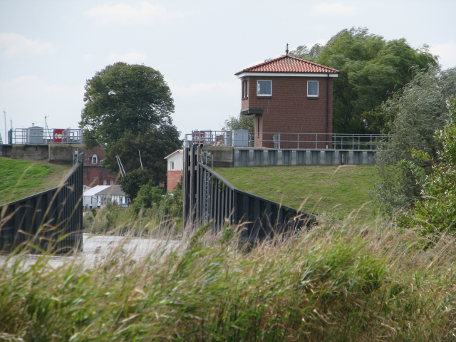 Flood barrage in the city of Freiburg (Elbe), Germany